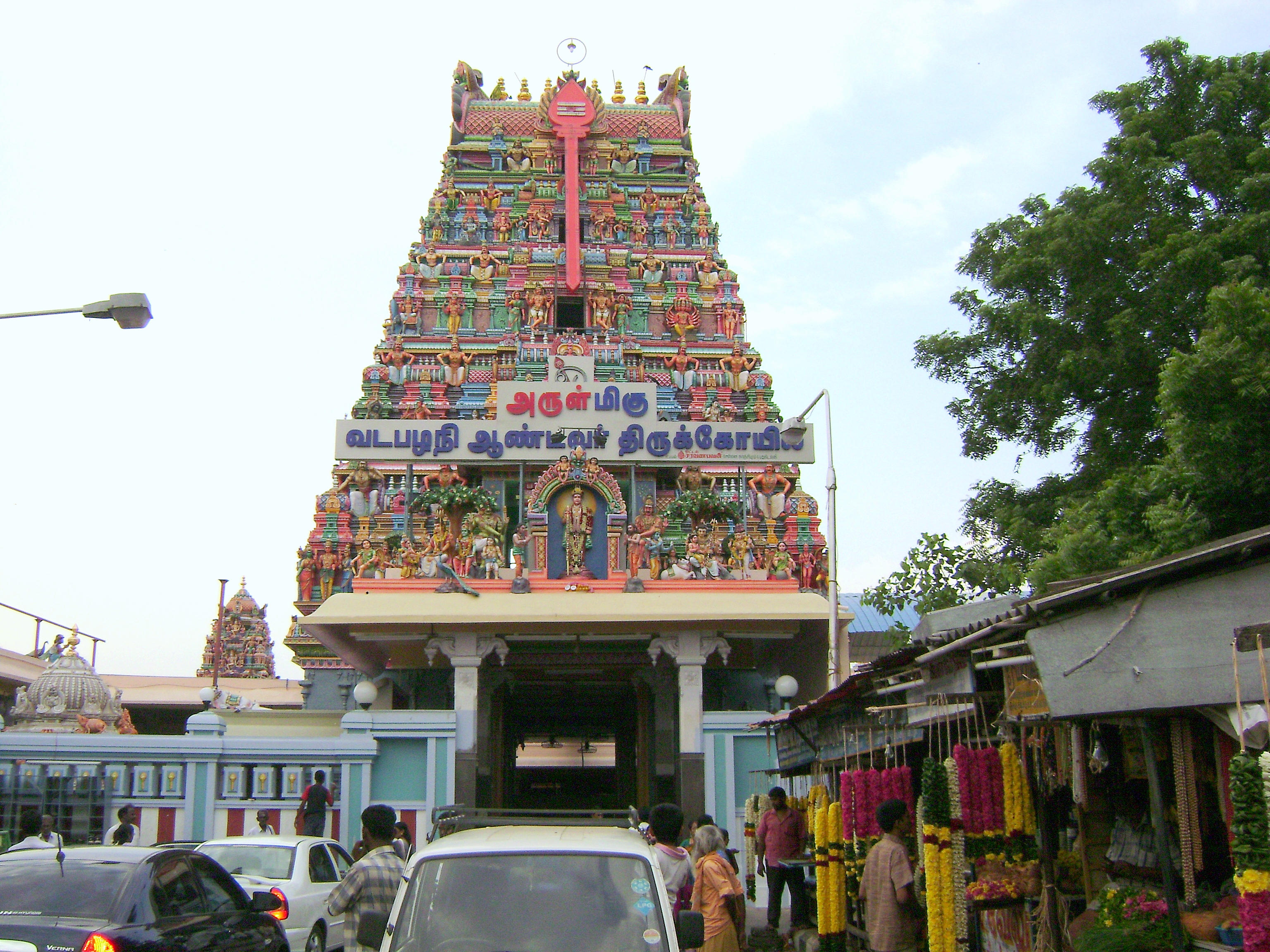 Vadapalani Temple in Chennai